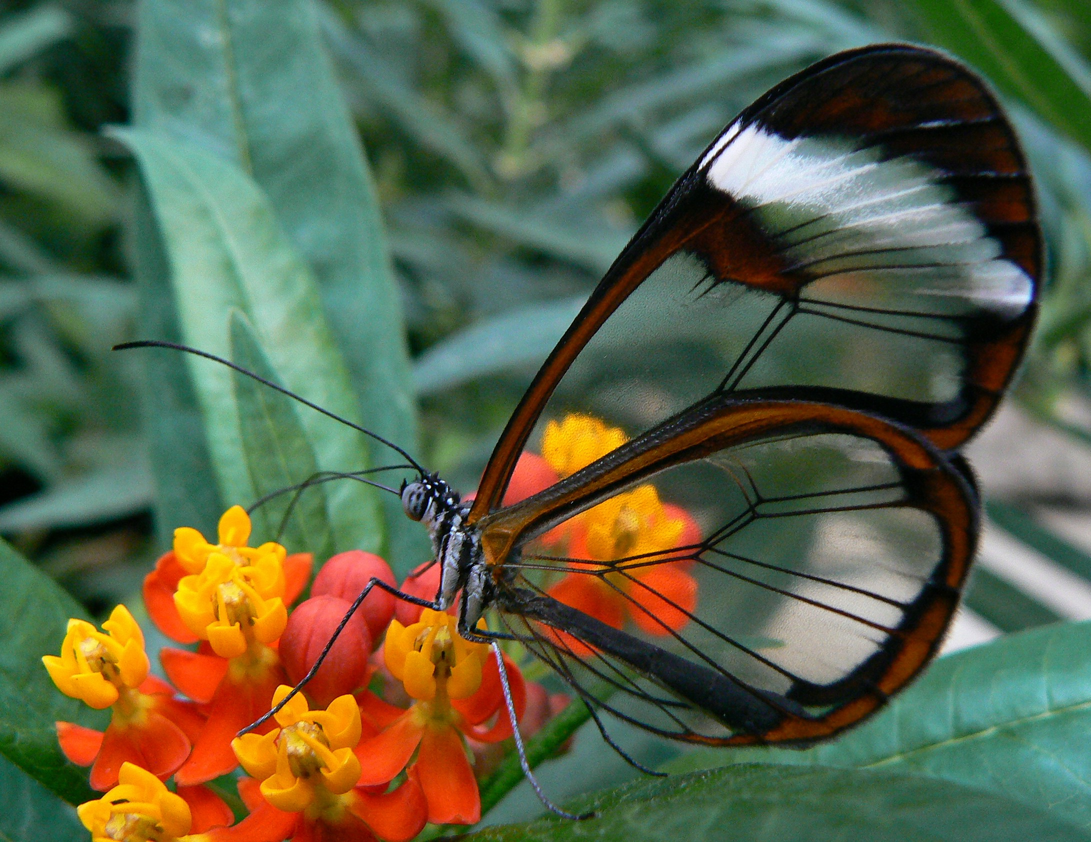 The clear wings make this South-American butterfly hard to see in flight, a succesfull defense mechanism.